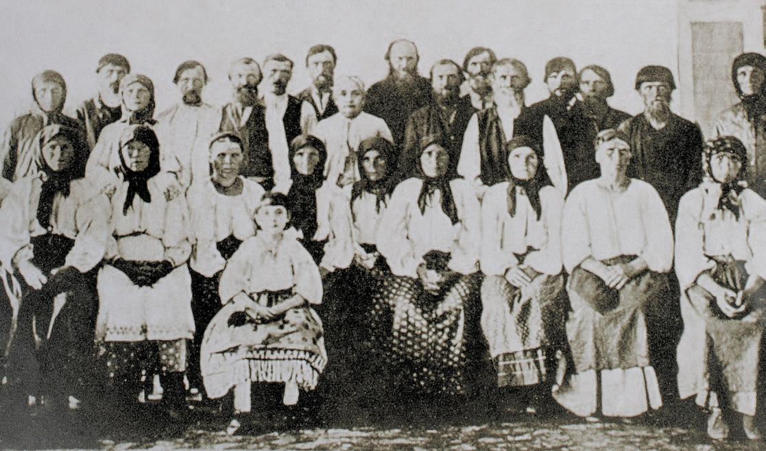 Alchevskaya with peasants of Alekseevka village. Mikhaylovskaya volost. Slavyanoserbsk uyezd. Early XX century.